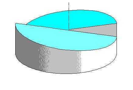 Crossed prisms of a split-image rangefinder